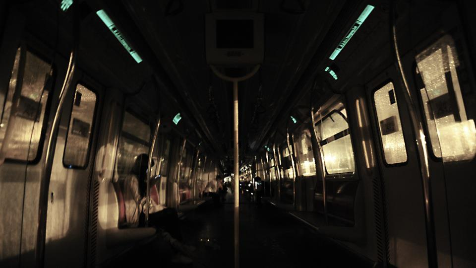 MTR East Rail SP1900 upder Typhoon Vicente